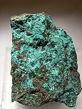 Mcguinnessite Locality: Red Mountain District, Santa Clara County, California, USA (Locality at ) Size: thumbnail, 3.7 X 3 X 1.3 cm Mcguinnessite Rich example for the locality, of this rare copper carbonate